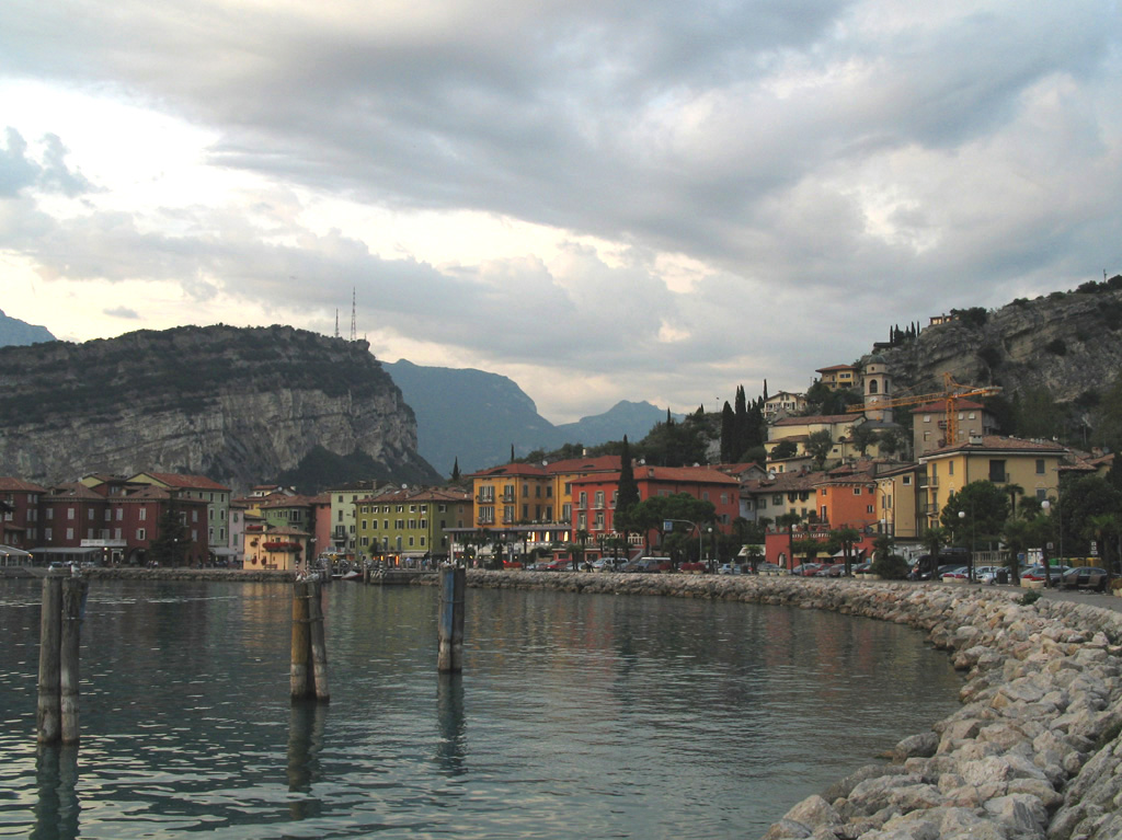 Evening mood in the village of Torbole, located at the northern end of Lake Garda/Italy